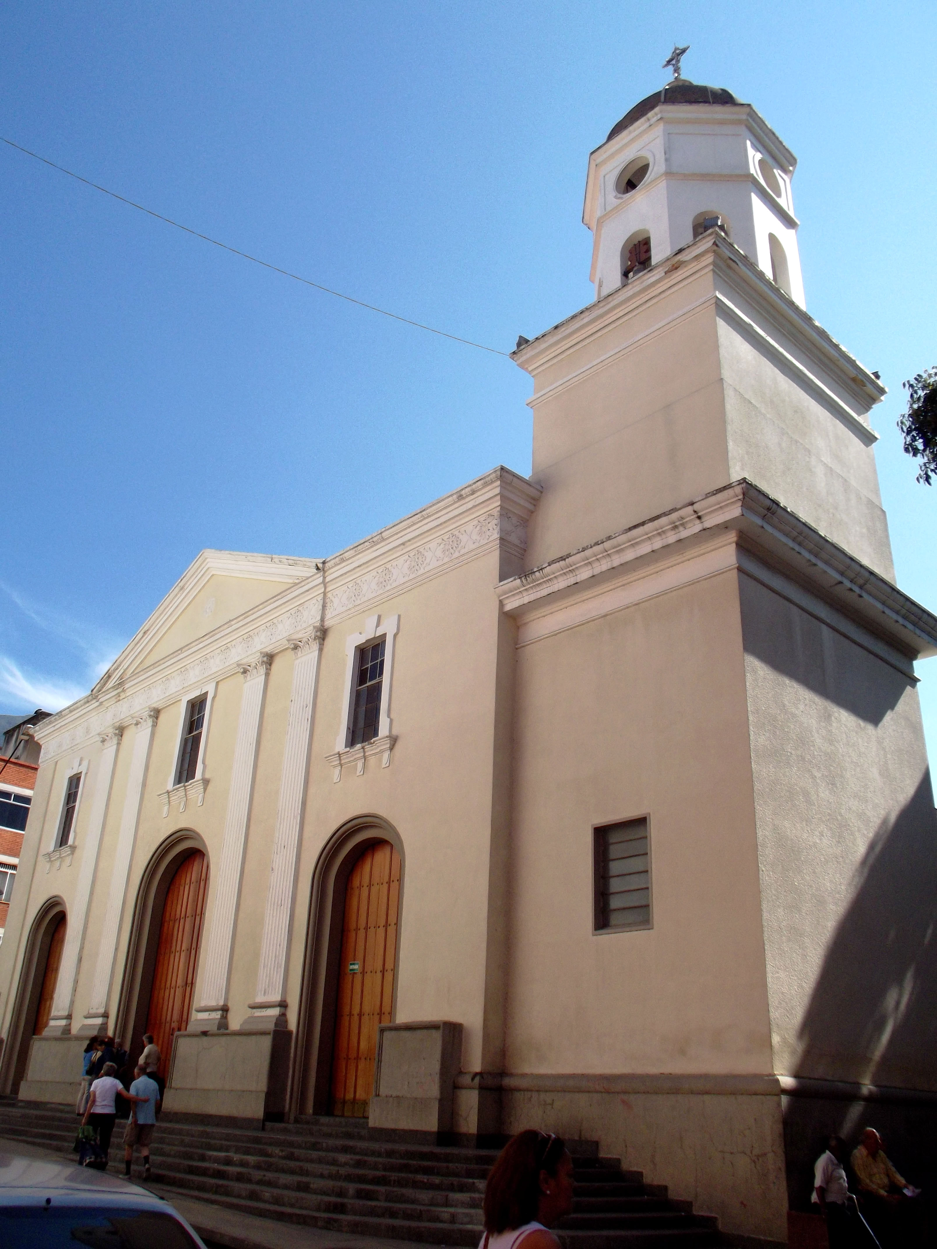 Iglesia Parroquial De San José De Chacao